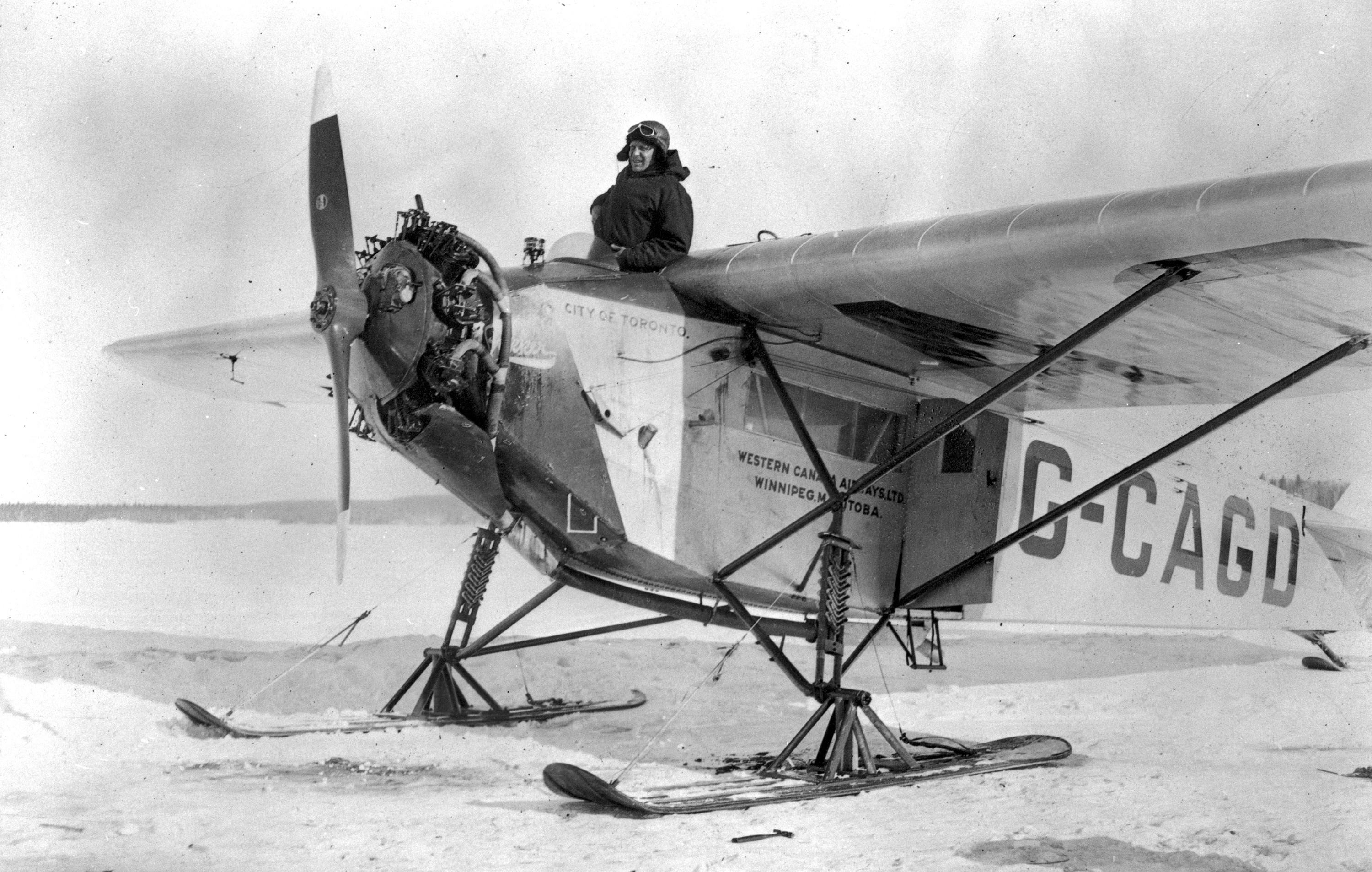 Western Canada Airways Base, Fort McMurray, Alberta. A5810